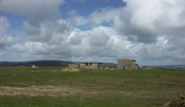 Gallow Tuag WWII Royal Navy Wireless Station on South Walls, Orkney Islands